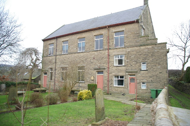 Inghamite Church, Salterforth. One of the last Inghamite churches, the other is in Wheatley Lane